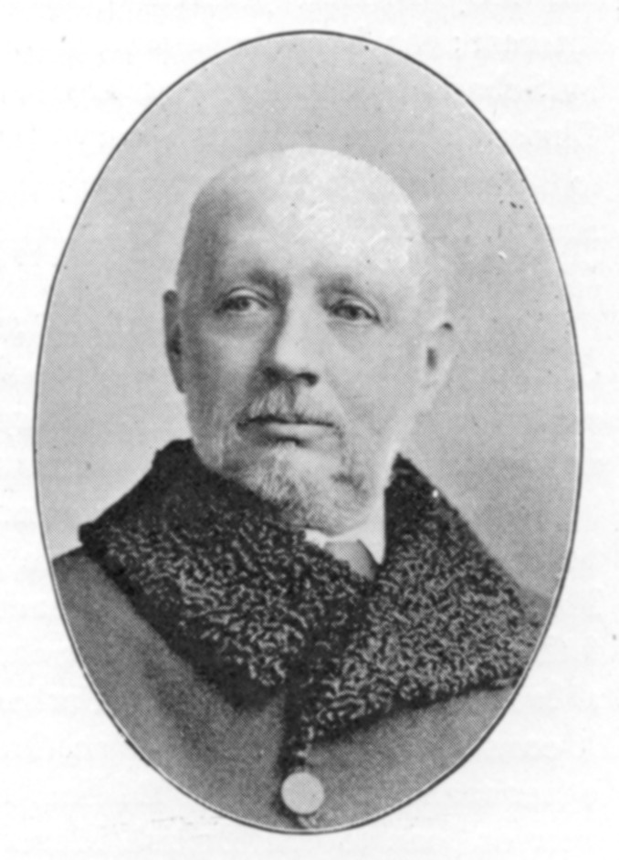 Richard Copley Christie. From the book THE BOOK-HUNTER IN LONDON by W. ROBERTS published 1895